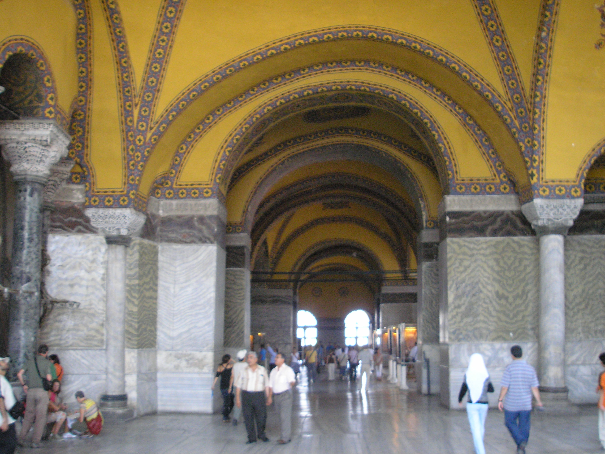 The upper gallery, or enclosure, of the Hagia Sophia. Many mosaics are located on this floor.